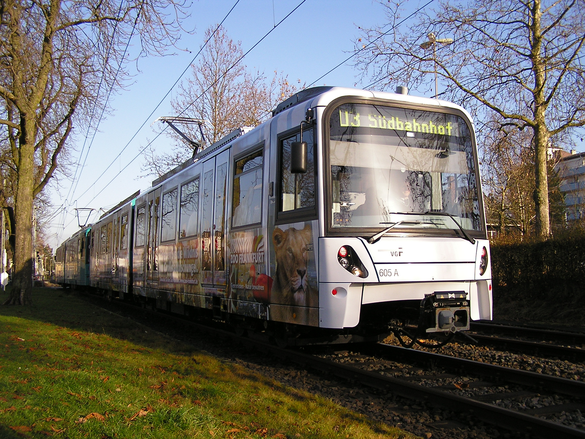 Some U5 cars as line U3 in Oberursel, the first car is 605 with an advertisement for the Frankfurt zoo